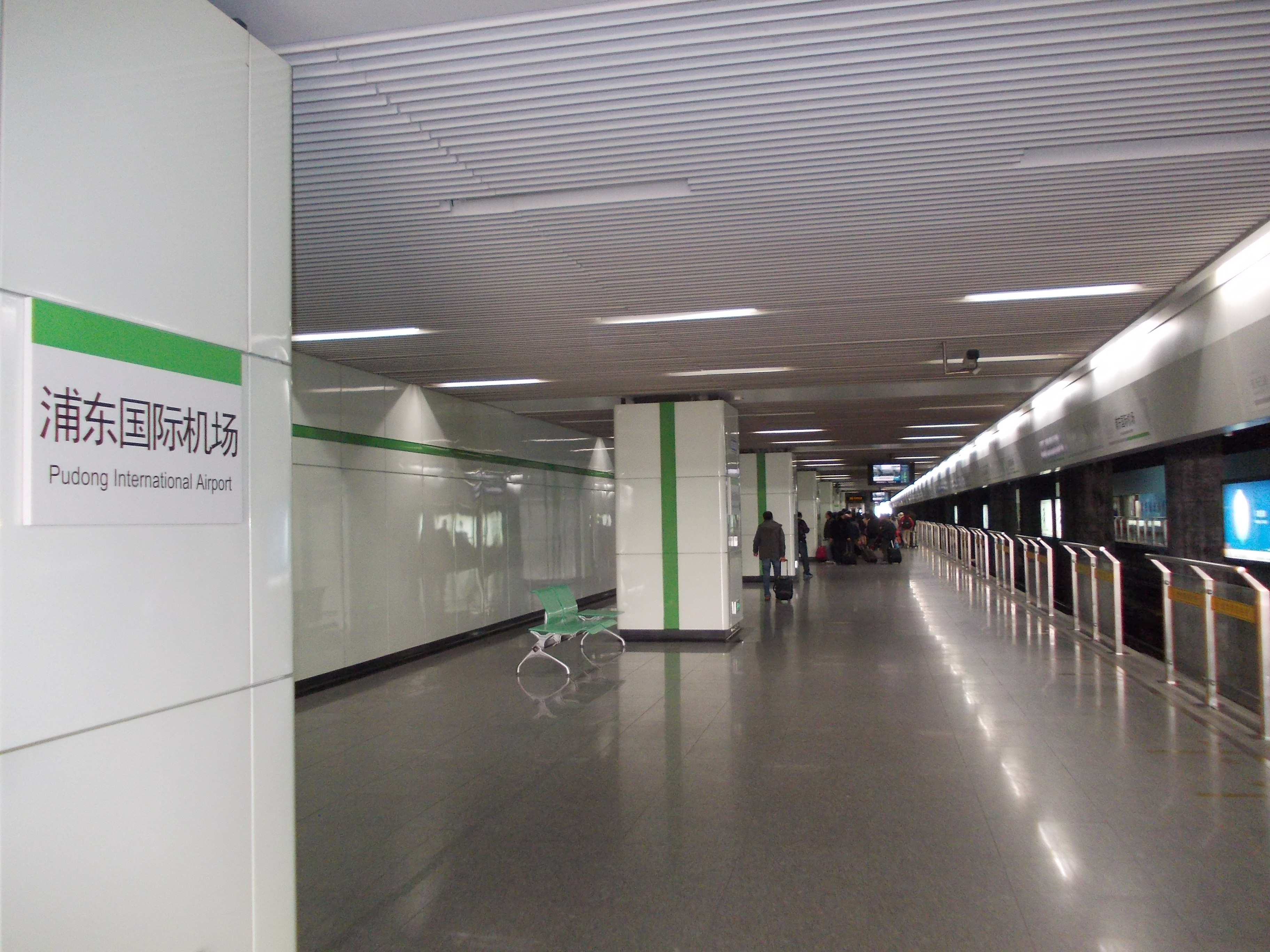 Shanghai Metro - Line 2 - Pudong International Airport